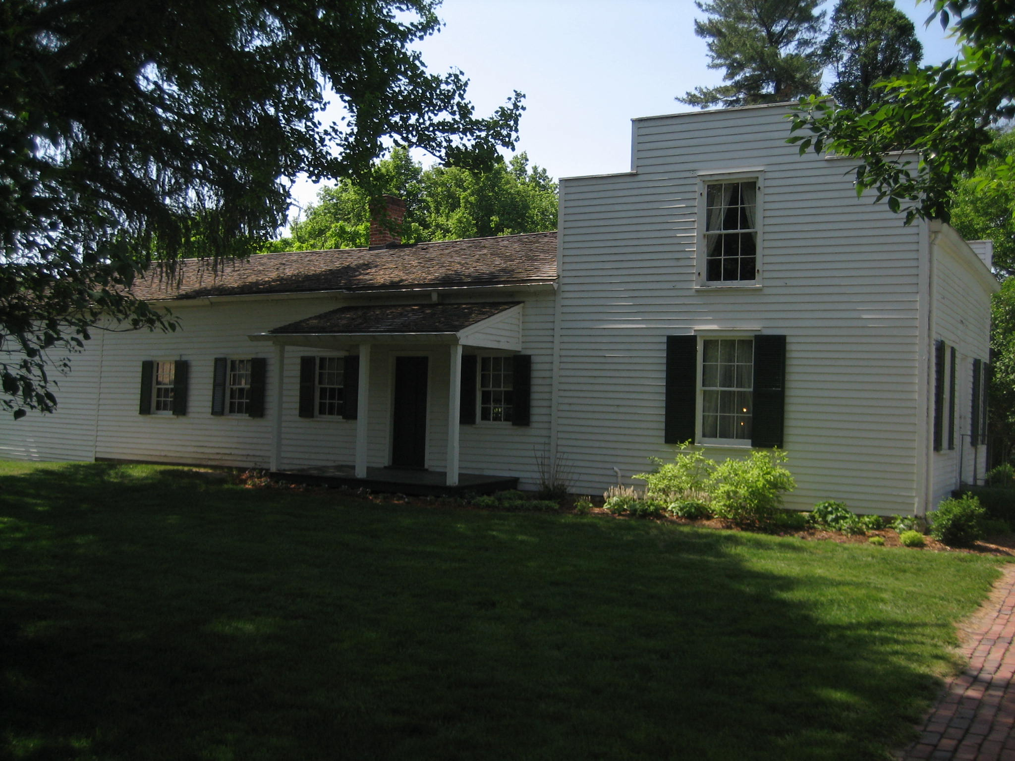 John Deere House, John Deere Historic Site (John Deere House & Shop) - Grand Detour, Illinois, United States. U.S. National Register of Historic Places, U.S. National Historic Landmark.